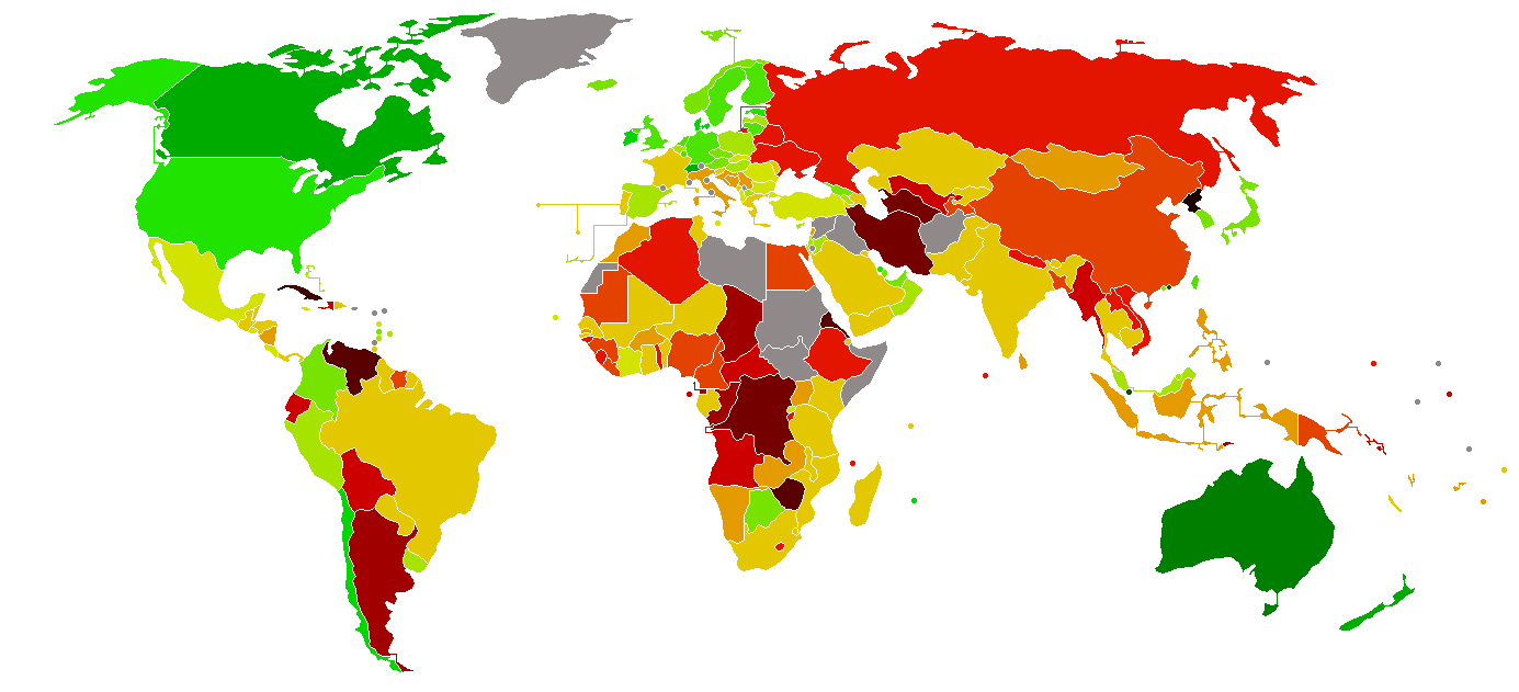 Index of Economic Freedom 2014